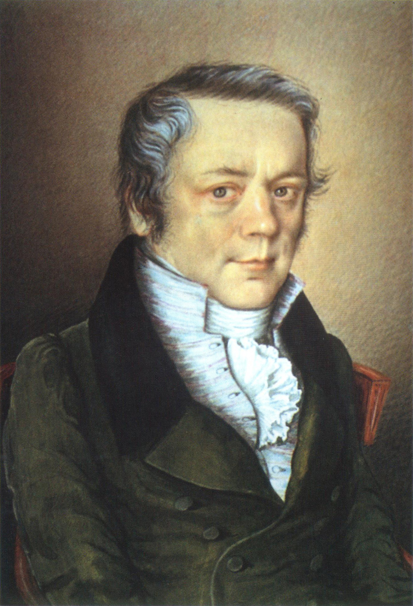 Portrait of Alexander Mikhailovitch Bakunin, father of Mikhail Bakunin.